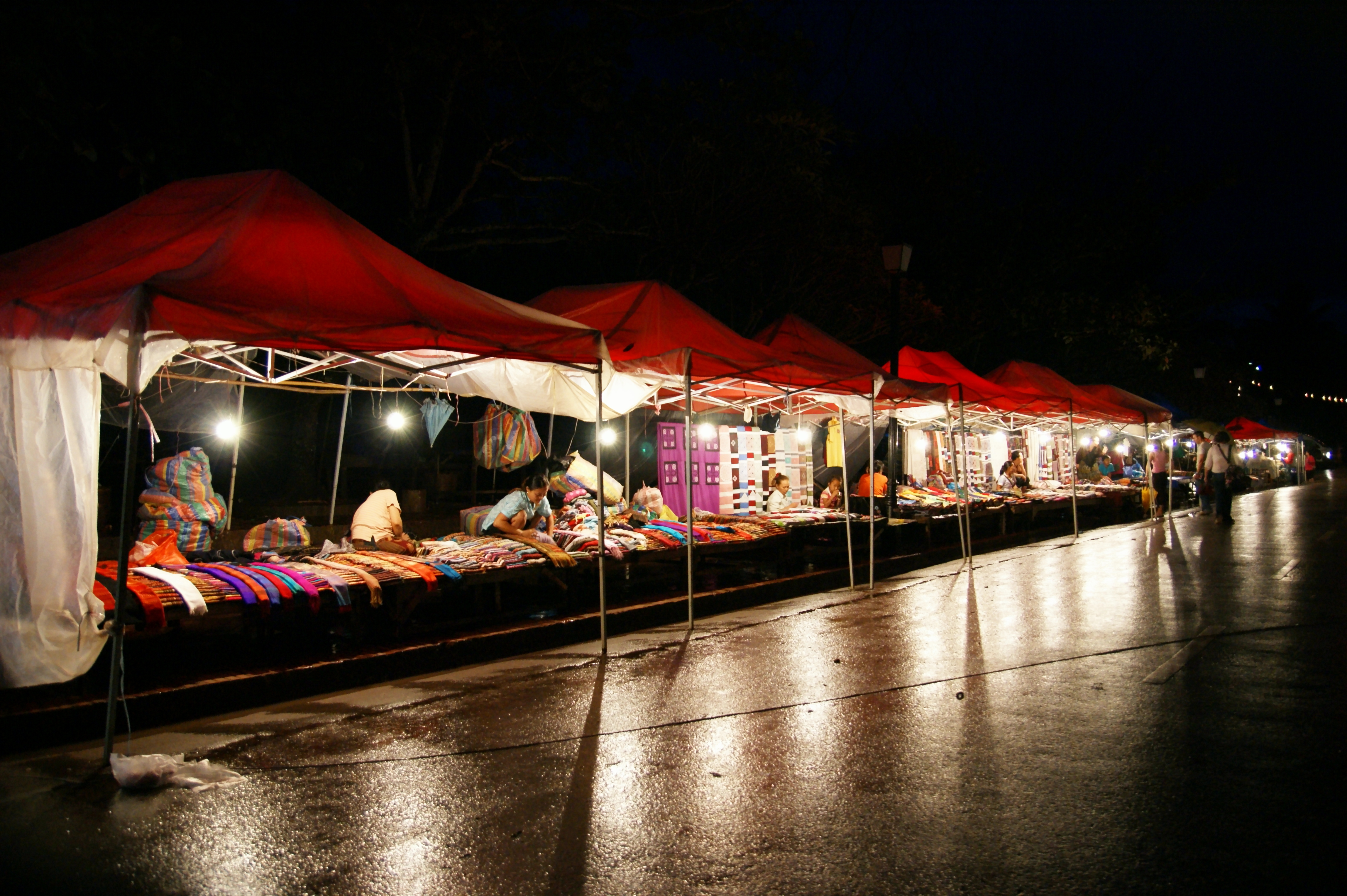 View of a night market at Luang Prabang, Laos, in 2009.